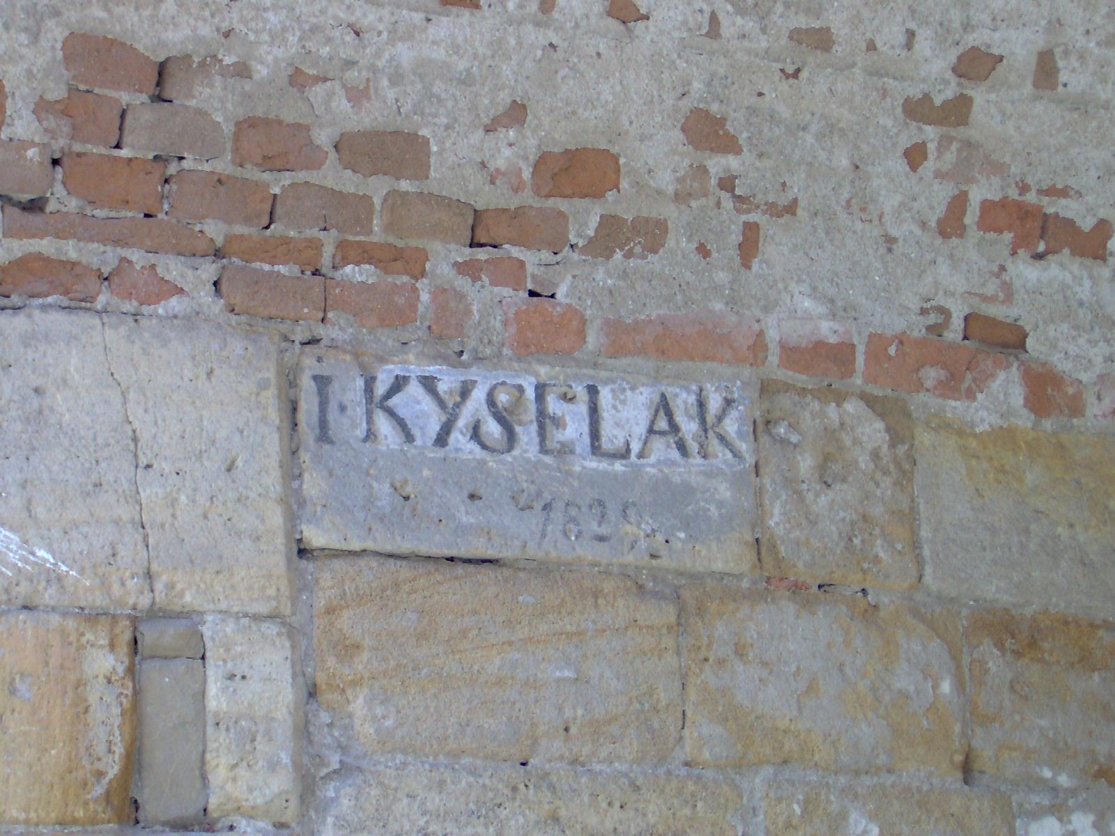 Joseph Kyselak's name tag, Veveří castle, Brno, Czech Republic